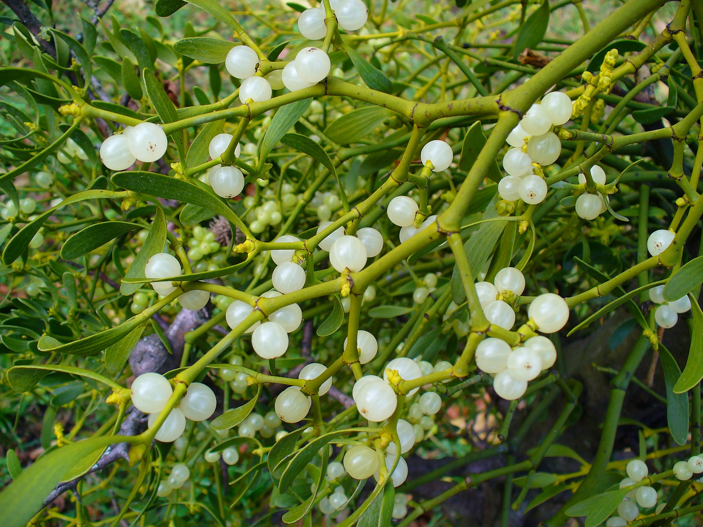 Viscum album, Santalaceae, European Mistletoe, fruits. Botanical Garden KIT, Karlsruhe, Germany.